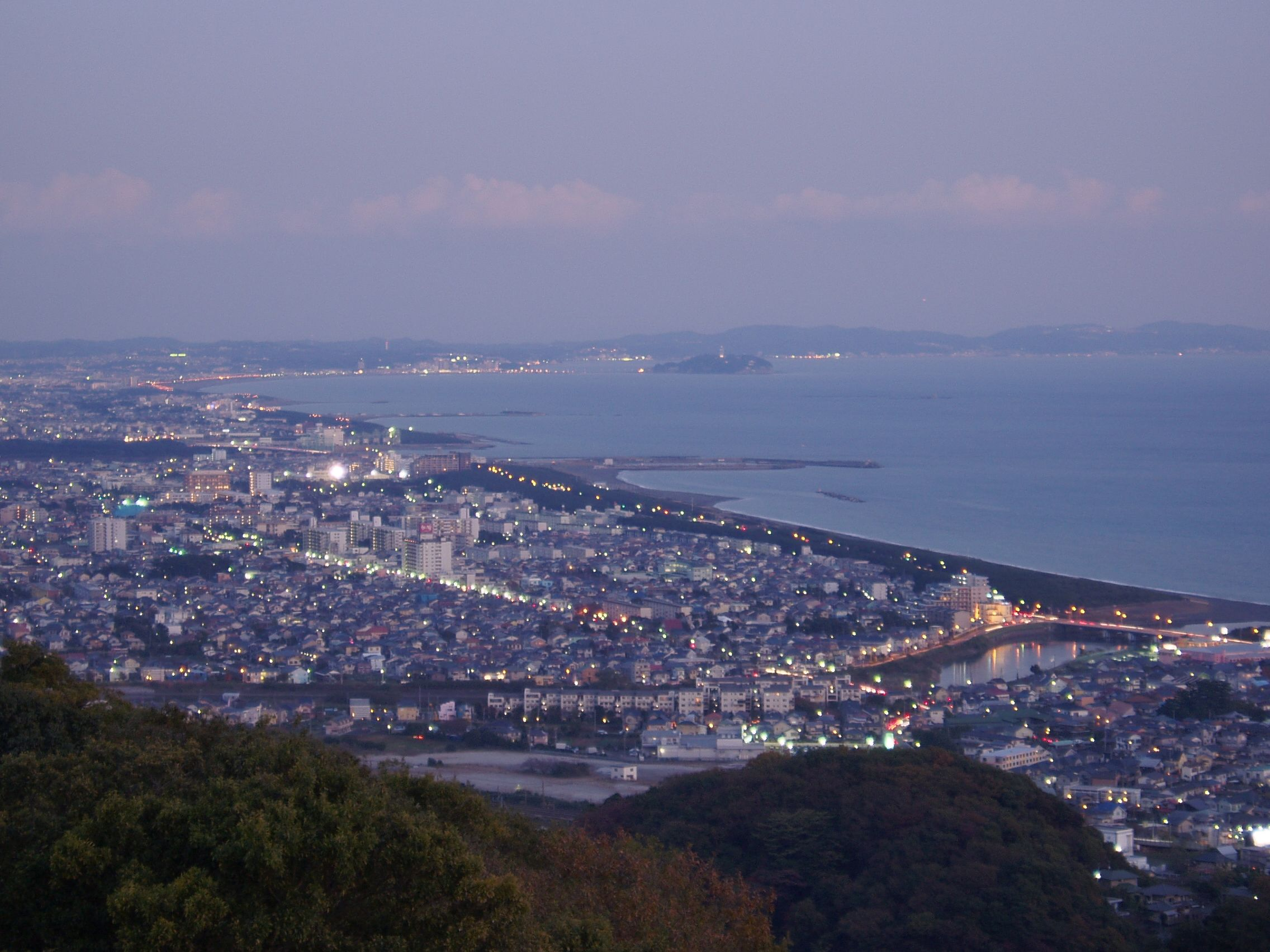 The spectacle in the evening which desires the direction of Enoshima from Shonandaira